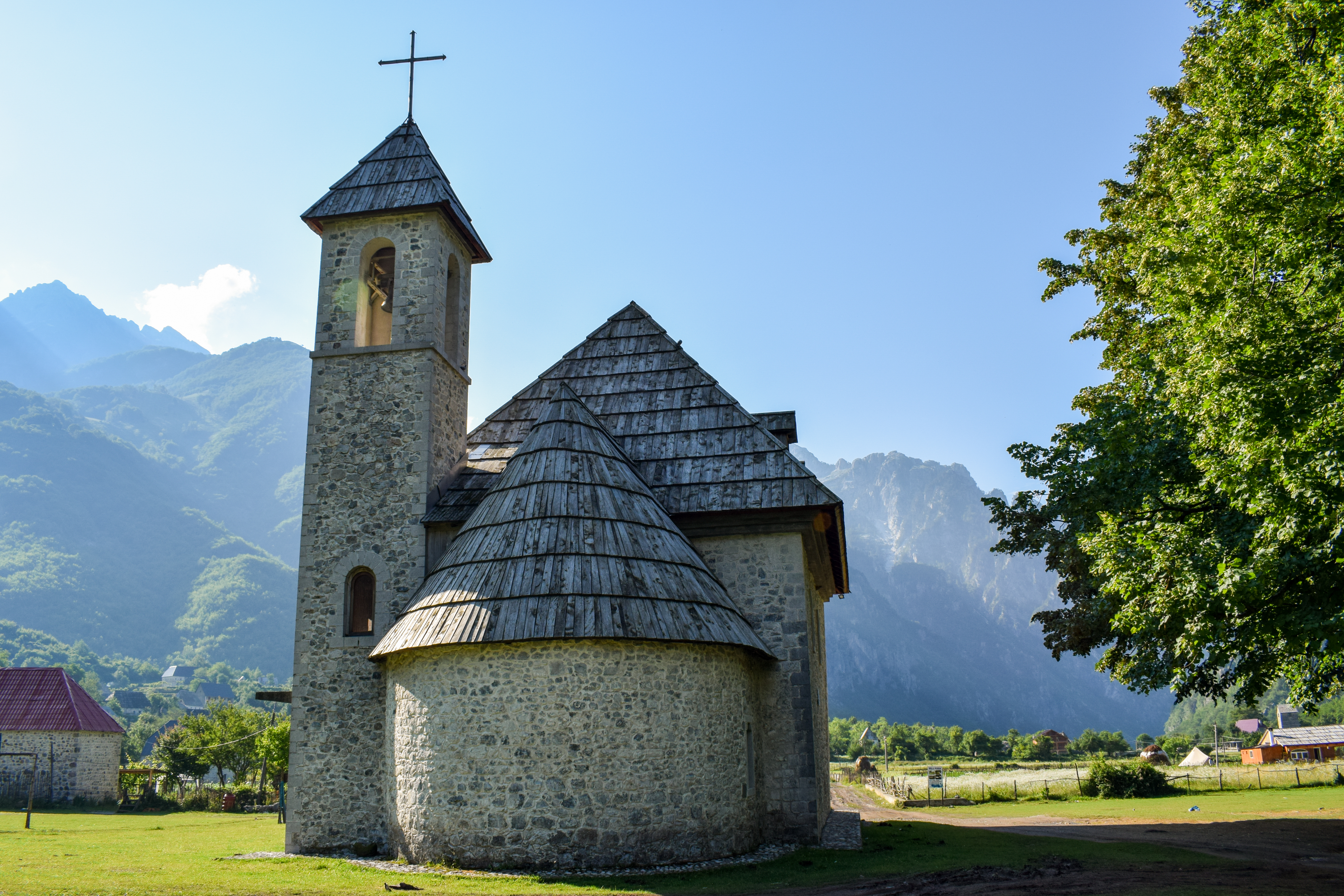 Church of Theth